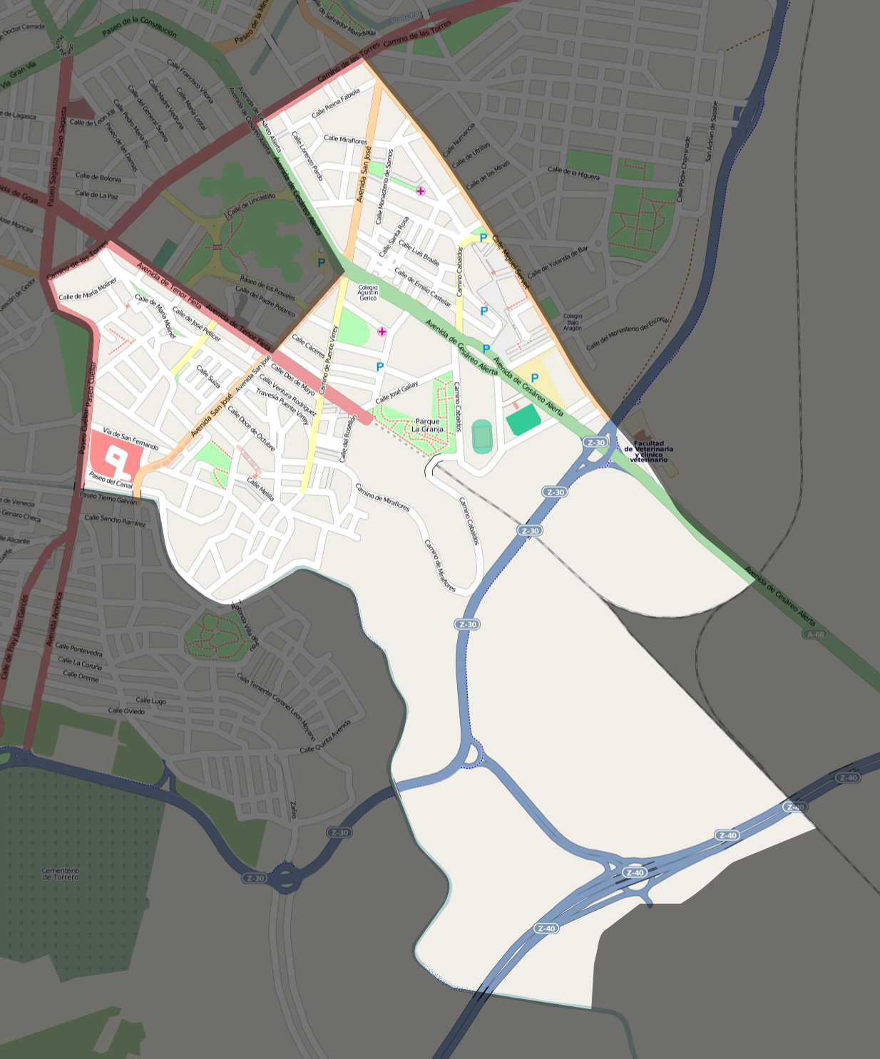 This map may be incomplete, and may contain errors. Don't rely solely on it for navigation.